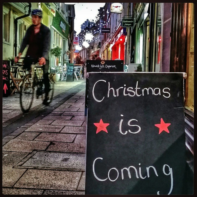 "Christmas is Coming" - sign